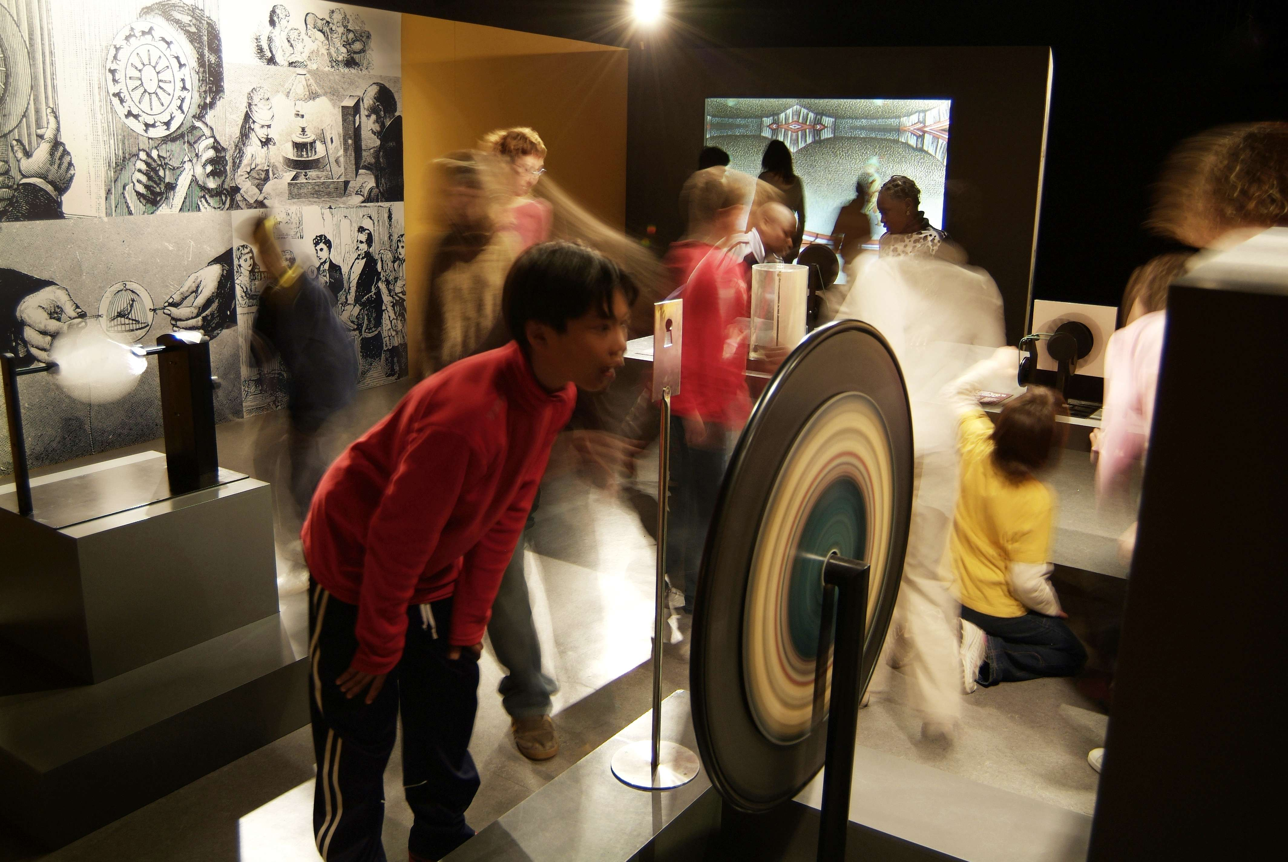 Cinema Museum in Girona (Catalonia). Educational service